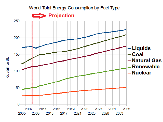 World energy consumption 2005-2035 EIA from International Energy Outlook 2011. Total energy consumption is projected to increase from 504.7 Quadrillion Btu (Quads) in 2008 to 769.8 Quads in 2035. The share of fossil fuels is projected to decline from 84% to 79%, and the share of renewables to increase from 10% to 14%.